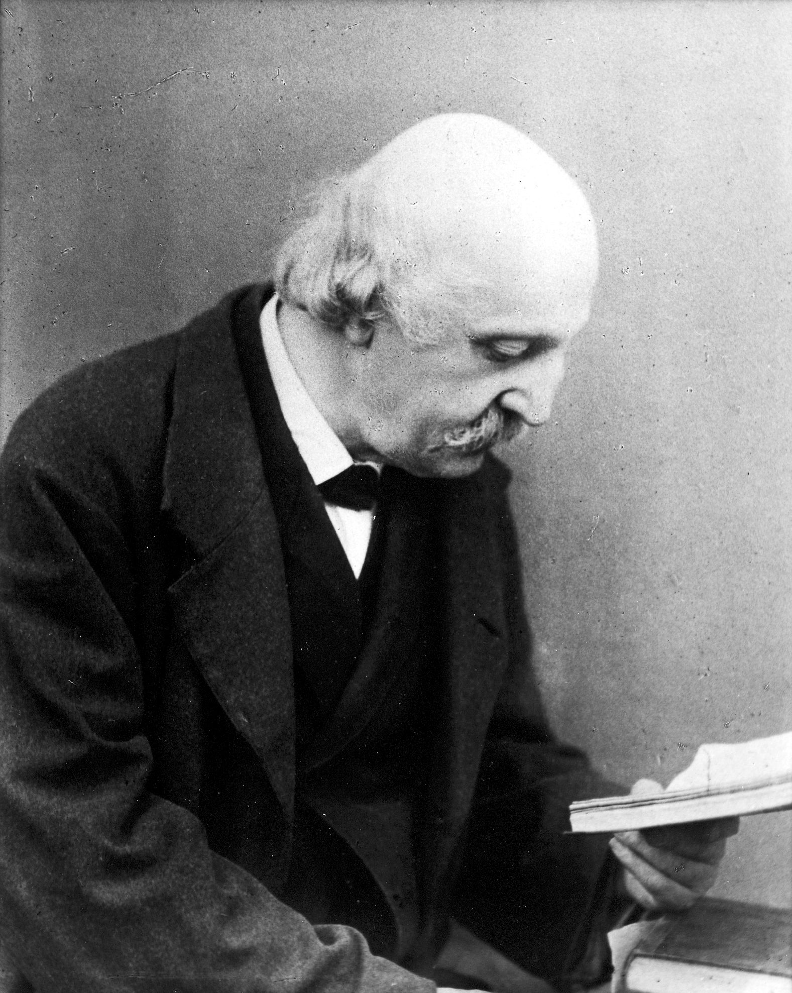 Giuseppe De Leva (1821-1895), Italian historian. He was president of Venice's Institute of Science, Literature and Arts